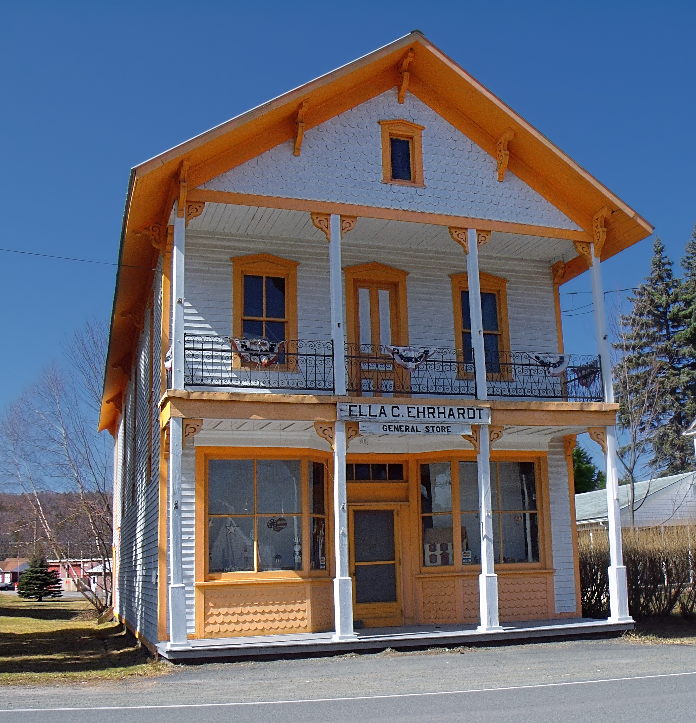 Newfoundland, Dreher Township, Wayne County, along PA Route 447.